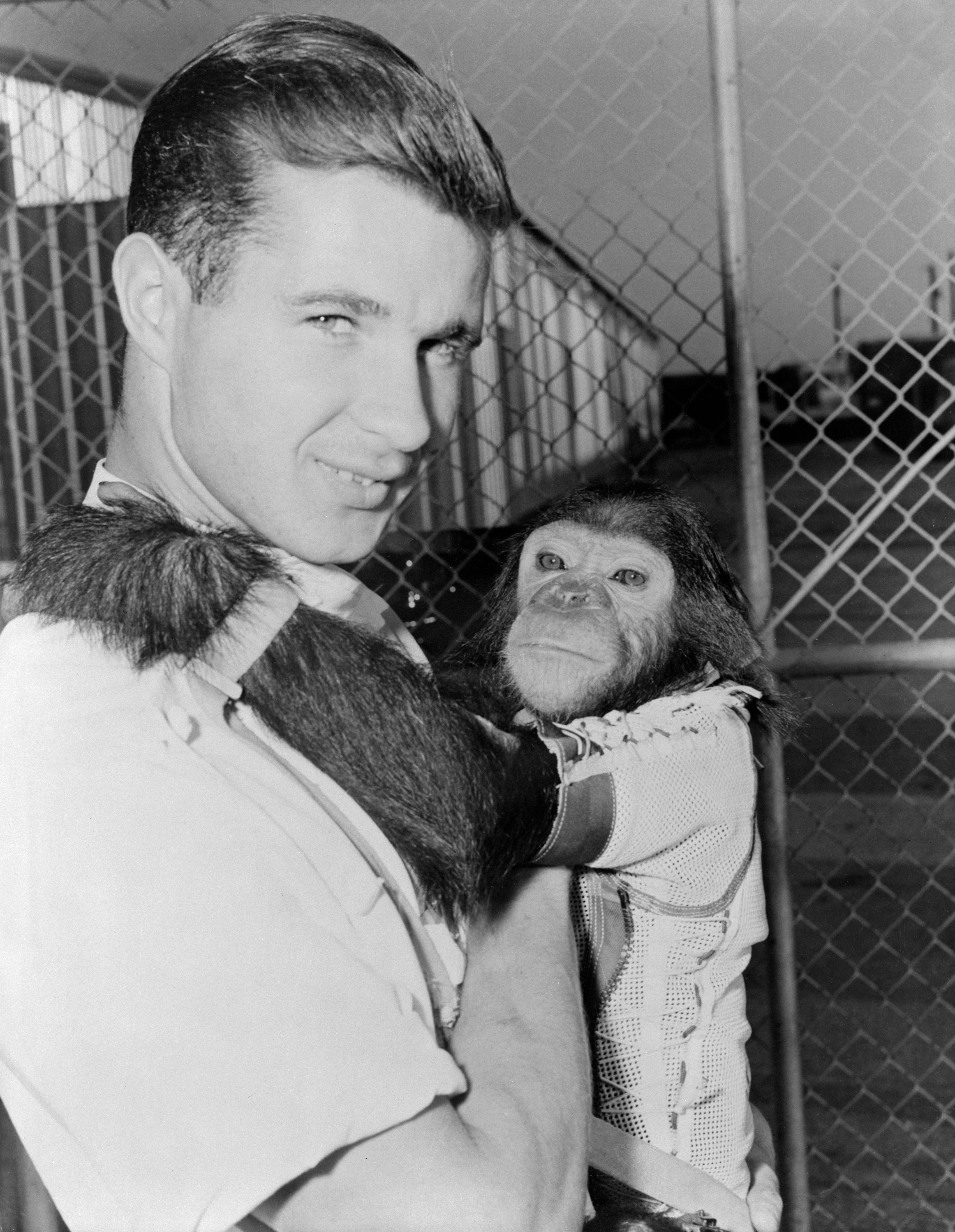 Chimpanzee Enos with handler before Mercury-Atlas 5 flight Enos became the first chimp to orbit the earth on November 29, 1961, aboard a Mercury Atlas rocket. Although the mission plan originally called for three orbits, due to a malfunctioning thruster and other technical difficulties, flight controllers were forced to terminate Enos' flight after two orbits. Enos landed in the recovery area and was picked up 75 minutes after splashdown. He was found to be in good overall condition and both he and the Mercury spacecraft performed well. His mission concluded the testing for a human orbital flight, achieved by John Glenn on February 20, 1962. Enos died at Holloman Air Force Base of a non-space related case of dysentery 11 months after his flight. For more information about Enos and other animals who have made the journey into space, visit